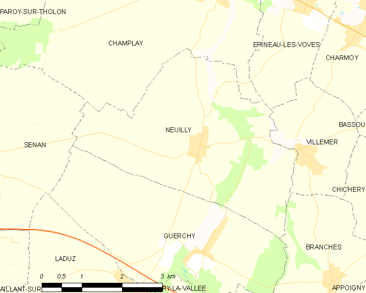 Map of French municipality Neuilly